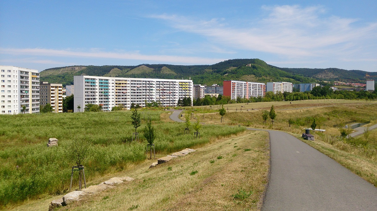 Blick vom Tunnelpark auf Neulobeda